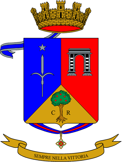 Coat of Arms of the 235° Infantry Regiment; Italian Army.